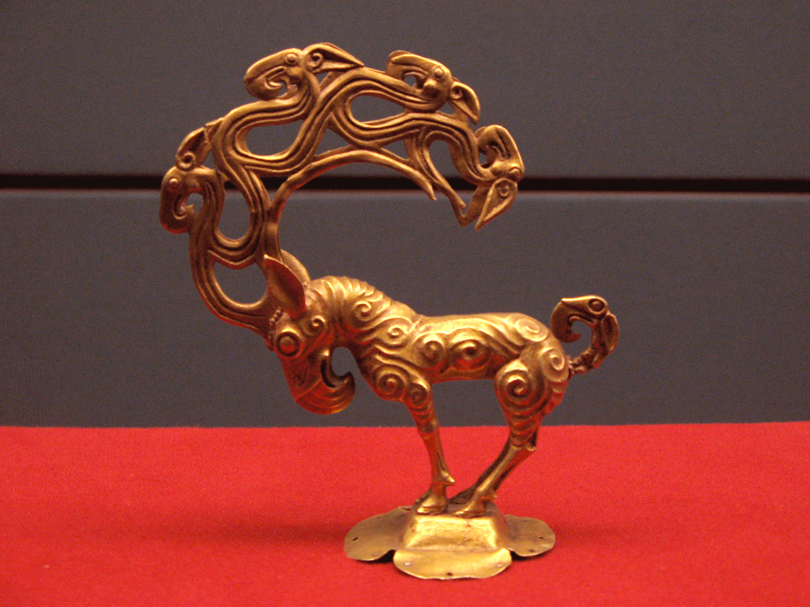 Fanciful Animal. Han Dynasty, 206BC - 220AD. Shaanxi History Museum, Xi'an This charming golden beast has a patterned, deer-like body and a head with an incurved beak. Its antlers support four sinuous and interconnected necks, each of which terminates in a smaller version of the animal's main head.